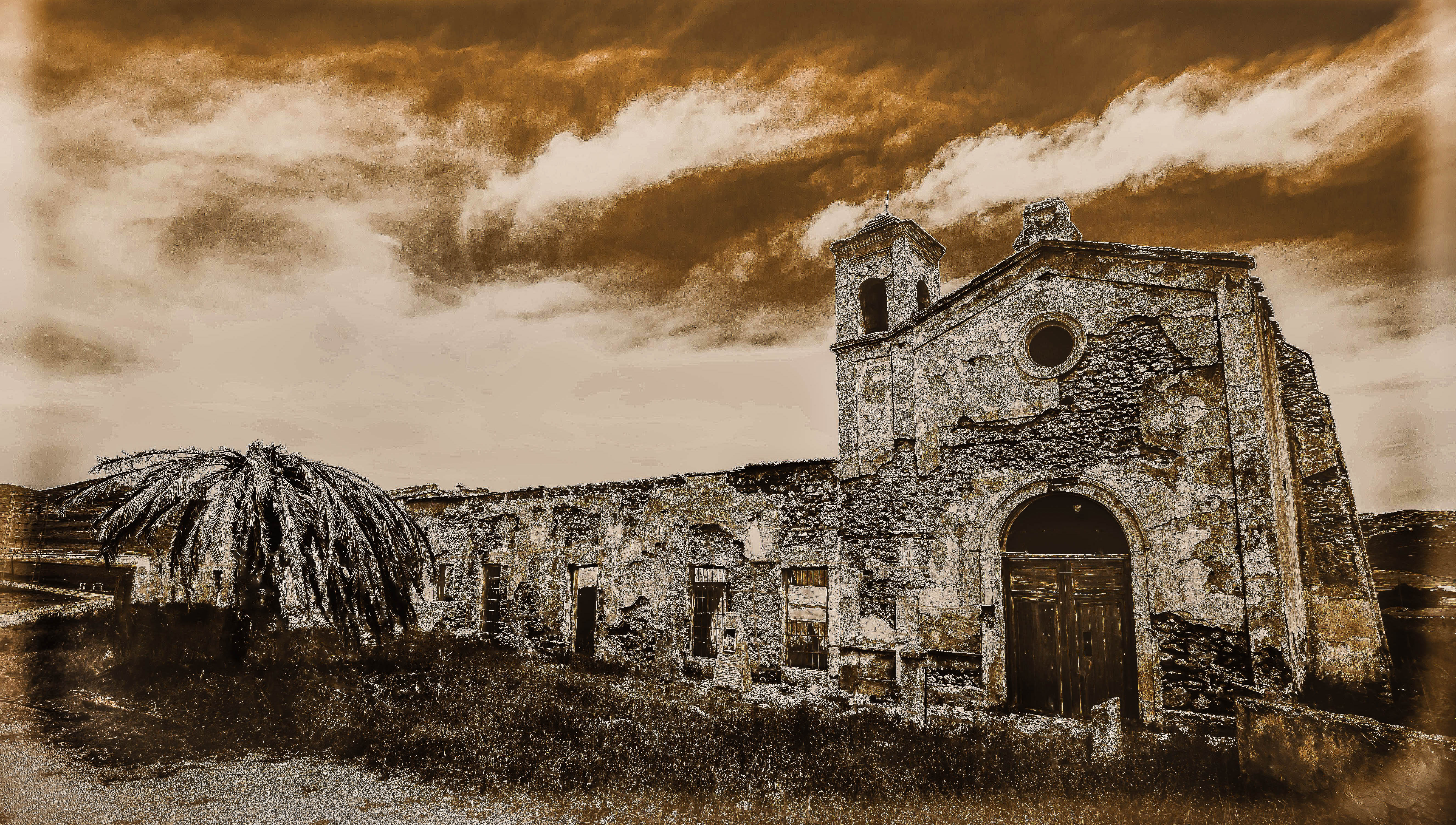 Cortijo Del Fraile in the Cabo De Gata